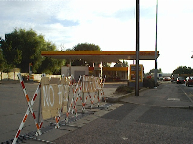 Ham Hill Filling Station. This picture was taken during the fuel crisis of September 2000, when lorry drivers blocked key petrol supplies in protest about high petrol prices.